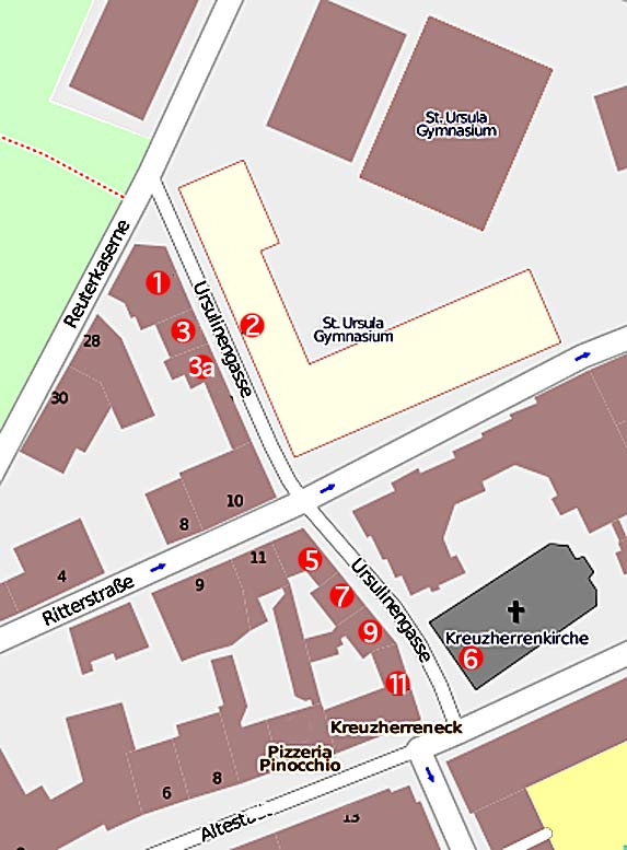 Ursulinengasse, the plan-scheme